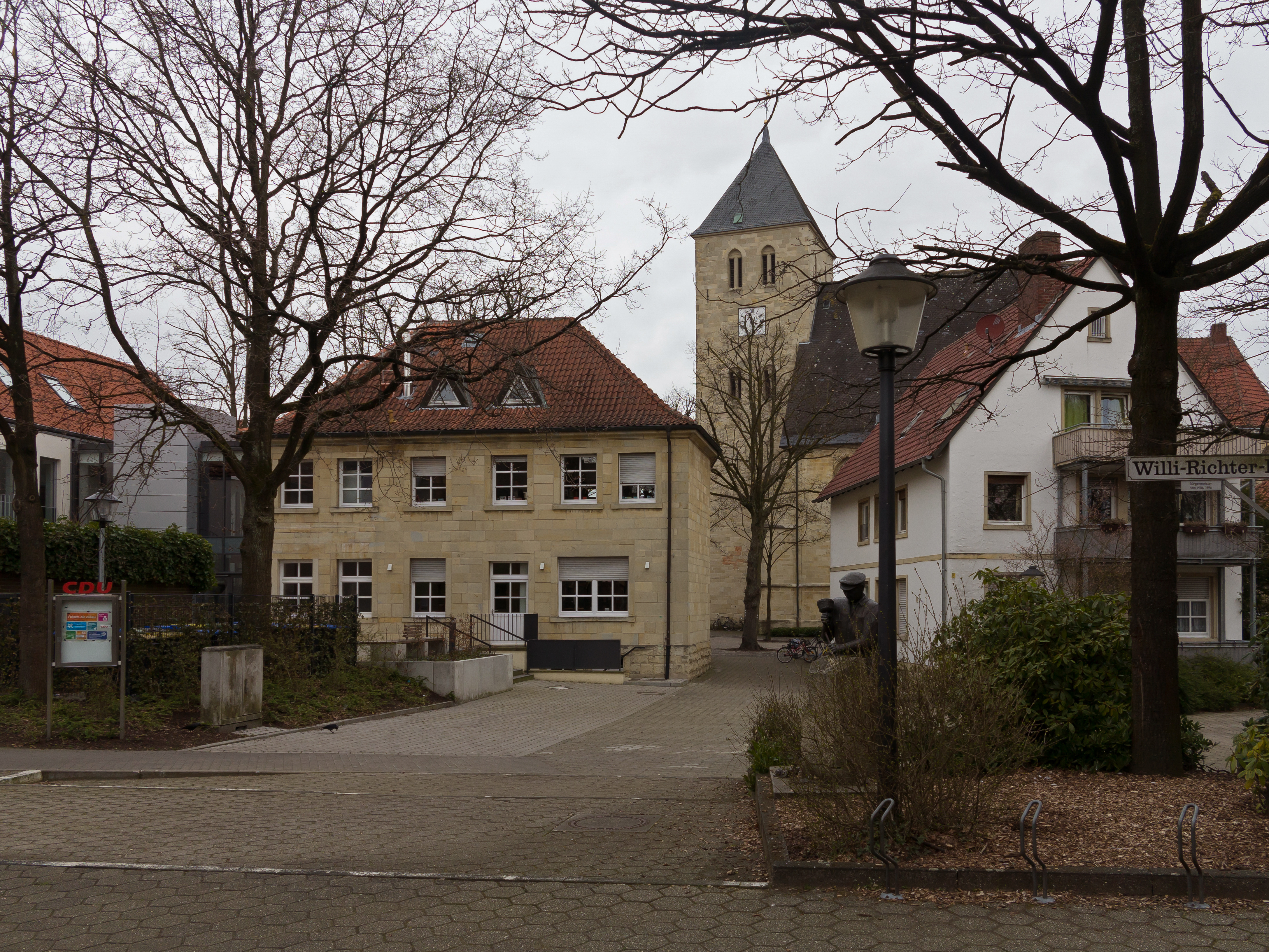 Havixbeck, sculpture (der Steinhauer) with catholic Pfarrkirche Sankt Dionysius in backgroundThis is a photograph of an architectural monument., no. 1